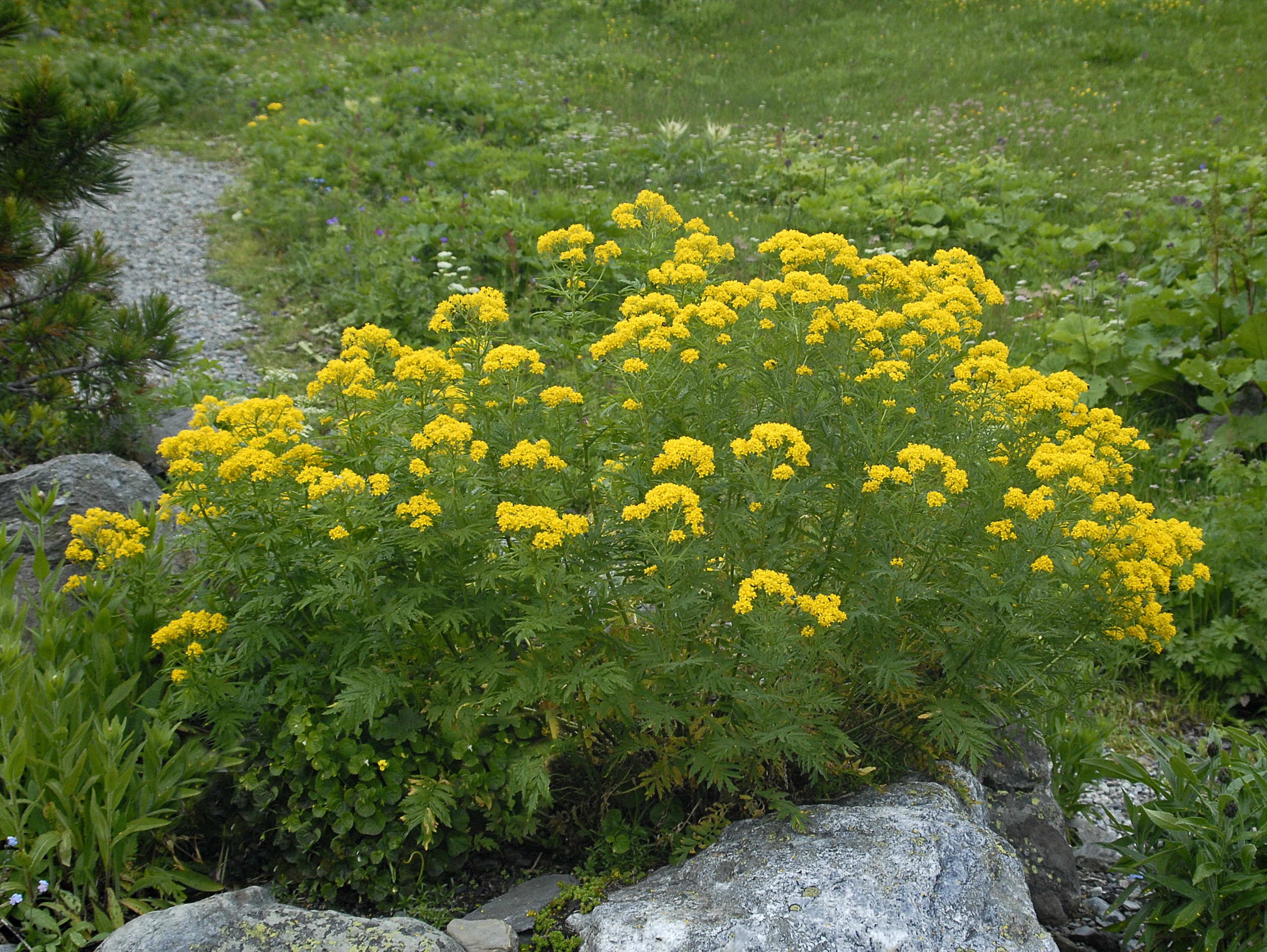 Hugueninia tanacetifolia subsp. suffruticosa at the Giardino Botanico Alpino Chanousia